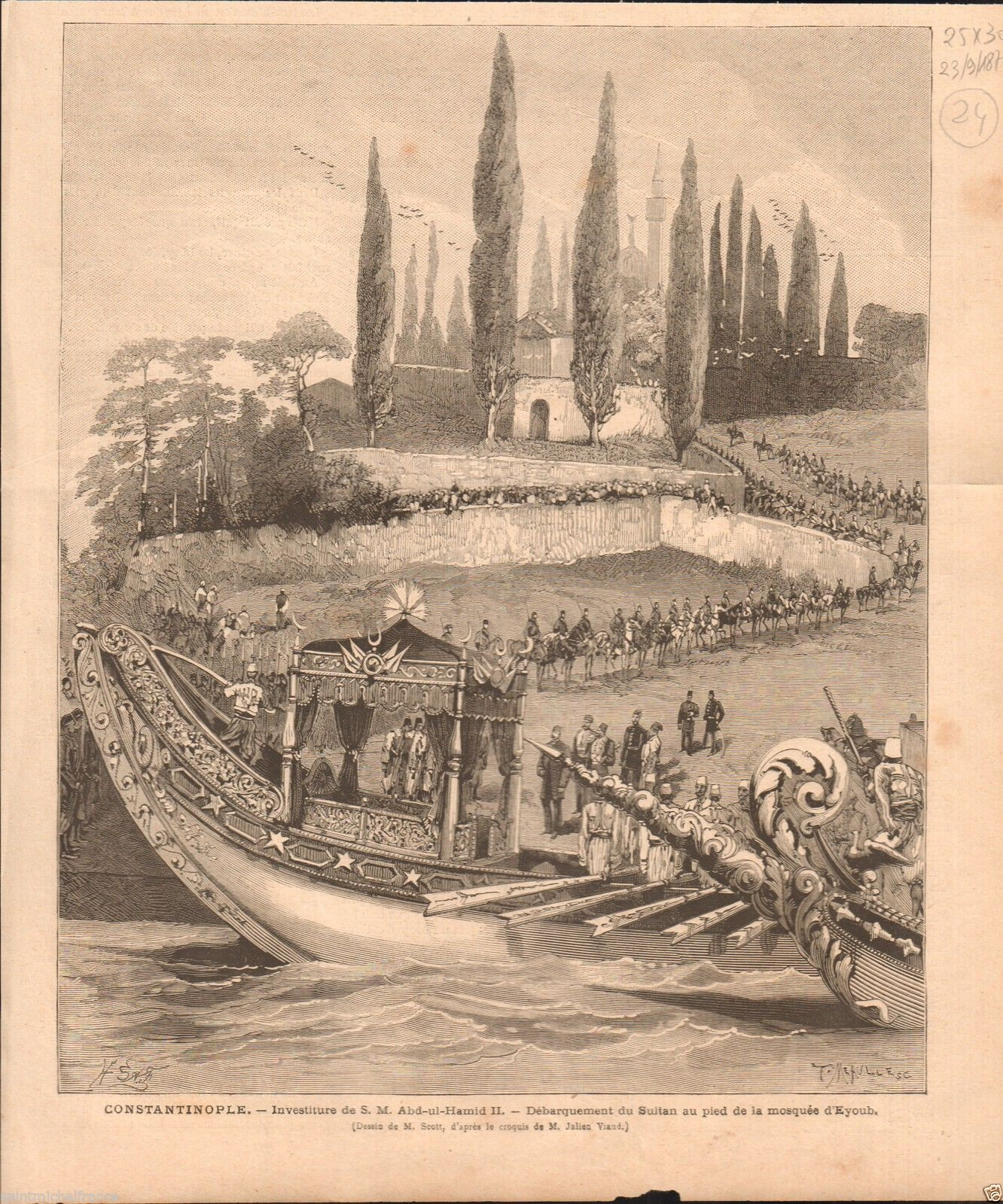 Abdulhamid arrives in Eyoup